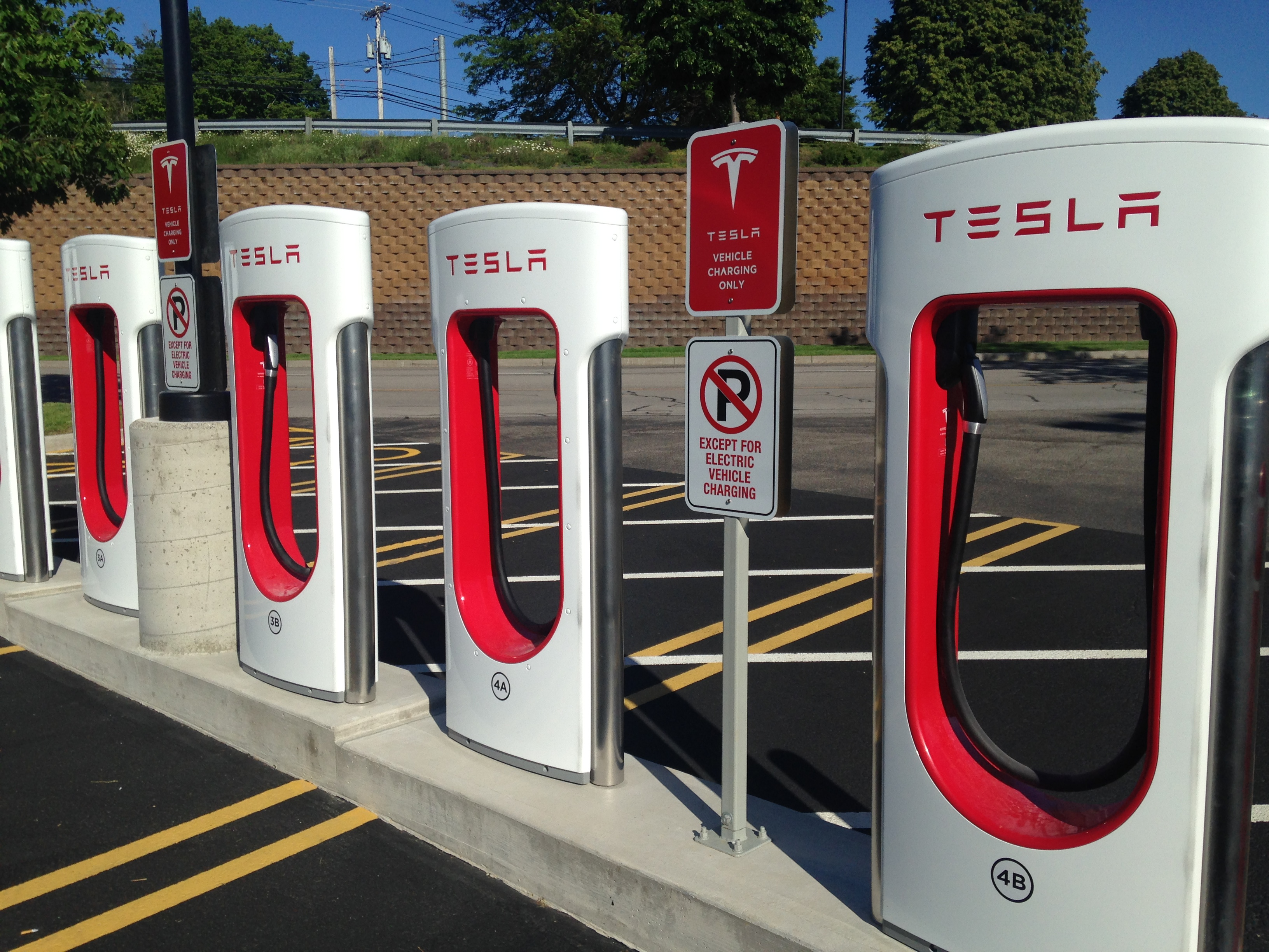 A brand-new Tesla supercharger in Victor New York at Eastview Mall. Rochester metropolitan area. Adjacent to interstate 490 and interstate 90.